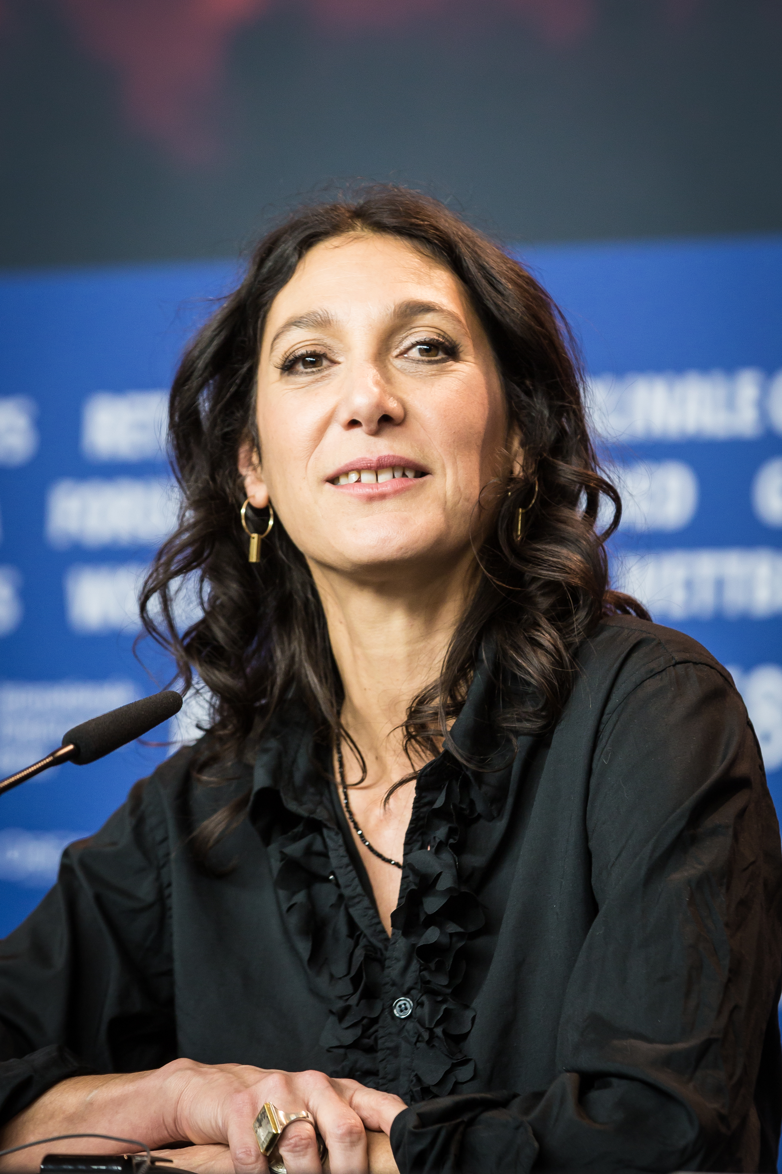 Movie director Emily Atef at the Berlinale 2018